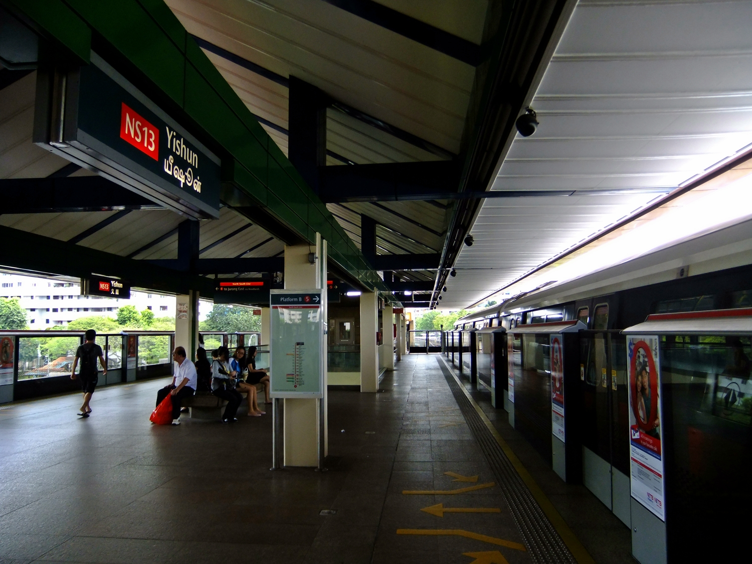 Yishun MRT Station with Platform Screen Doors.